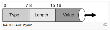 Радиус AVP